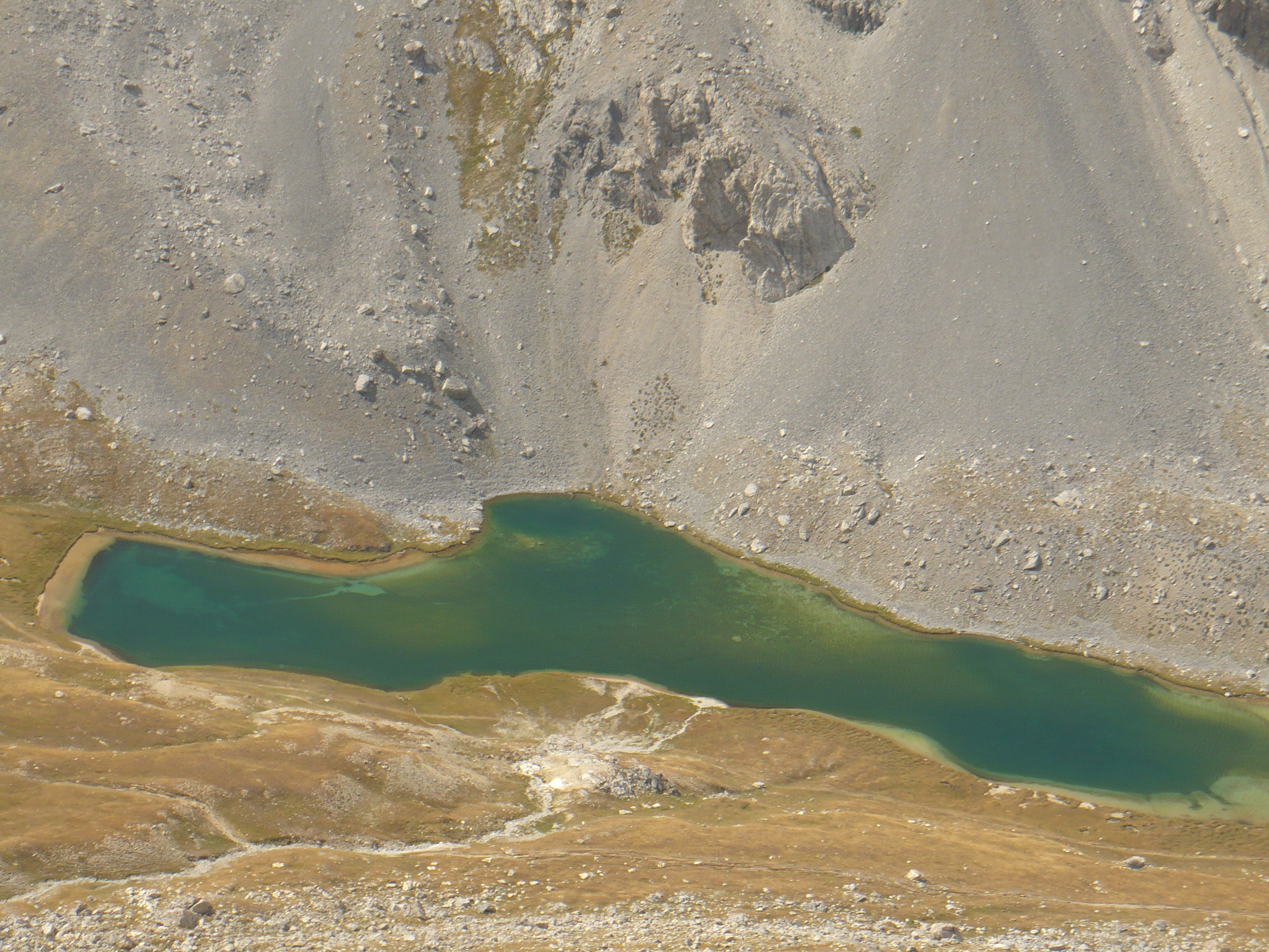 Lake of Oronaye - Cottian Alps - Lakes of France - France